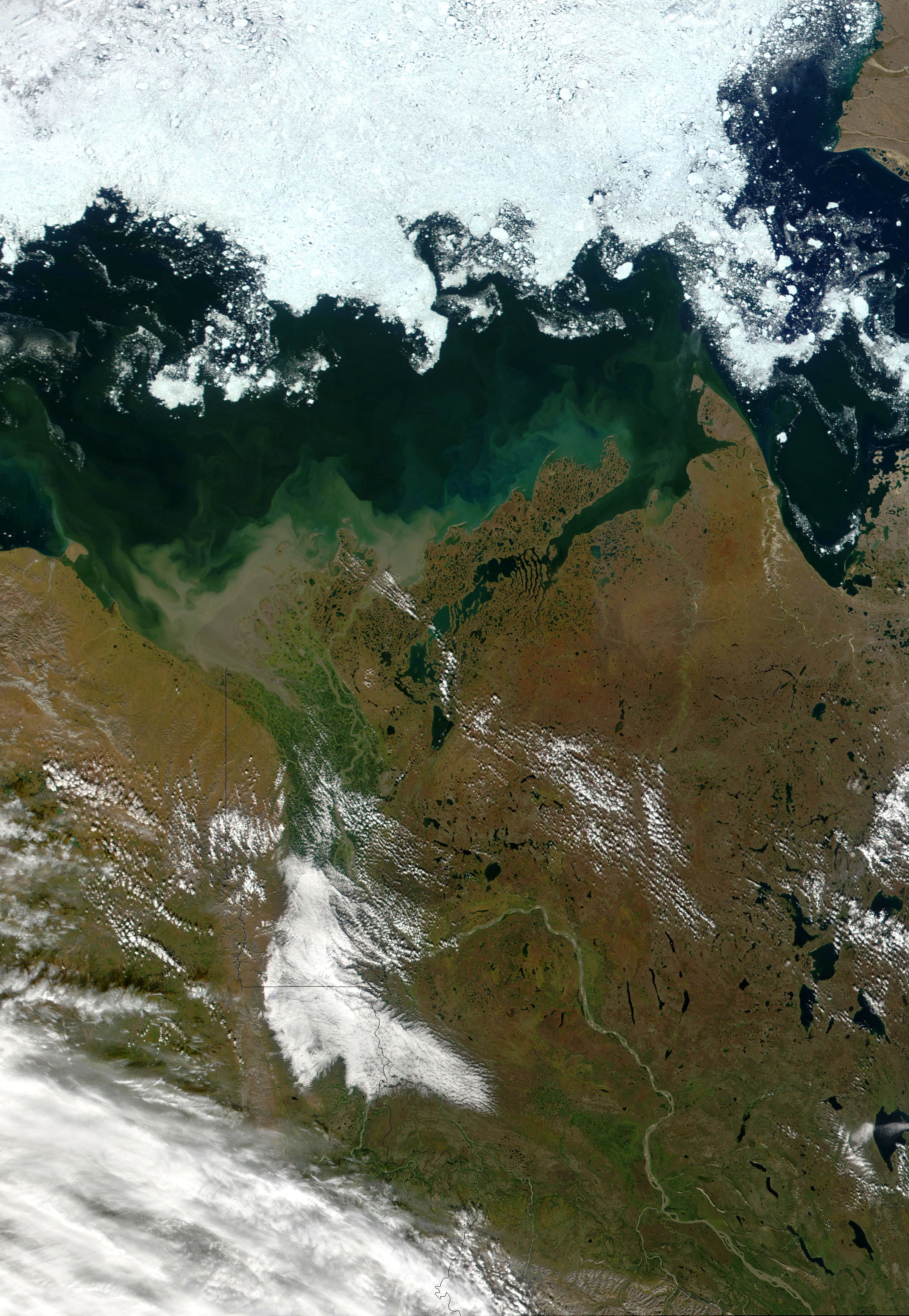 Mackenzie River delta from NASA Source: NASA Visible Earth Credit: Jacques Descloitres, MODIS Land Rapid Response Team, NASA/GSFC Satellite: Terra Sensor: MODIS Image Date: 08-29-2001